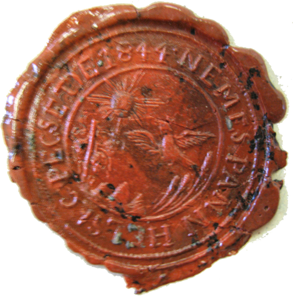 photo of seal of Paňa from 1844